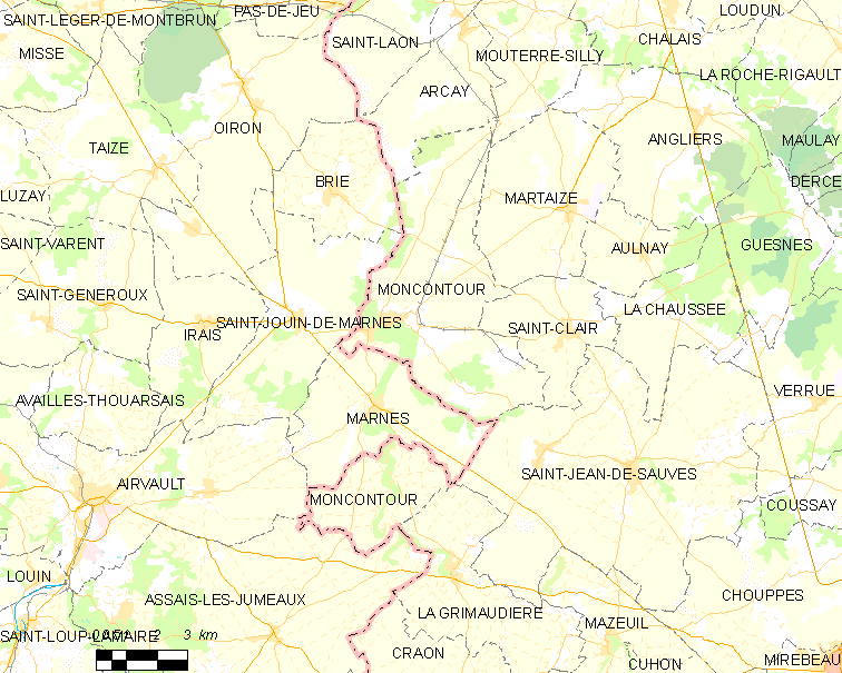 Map of French municipality Moncontour